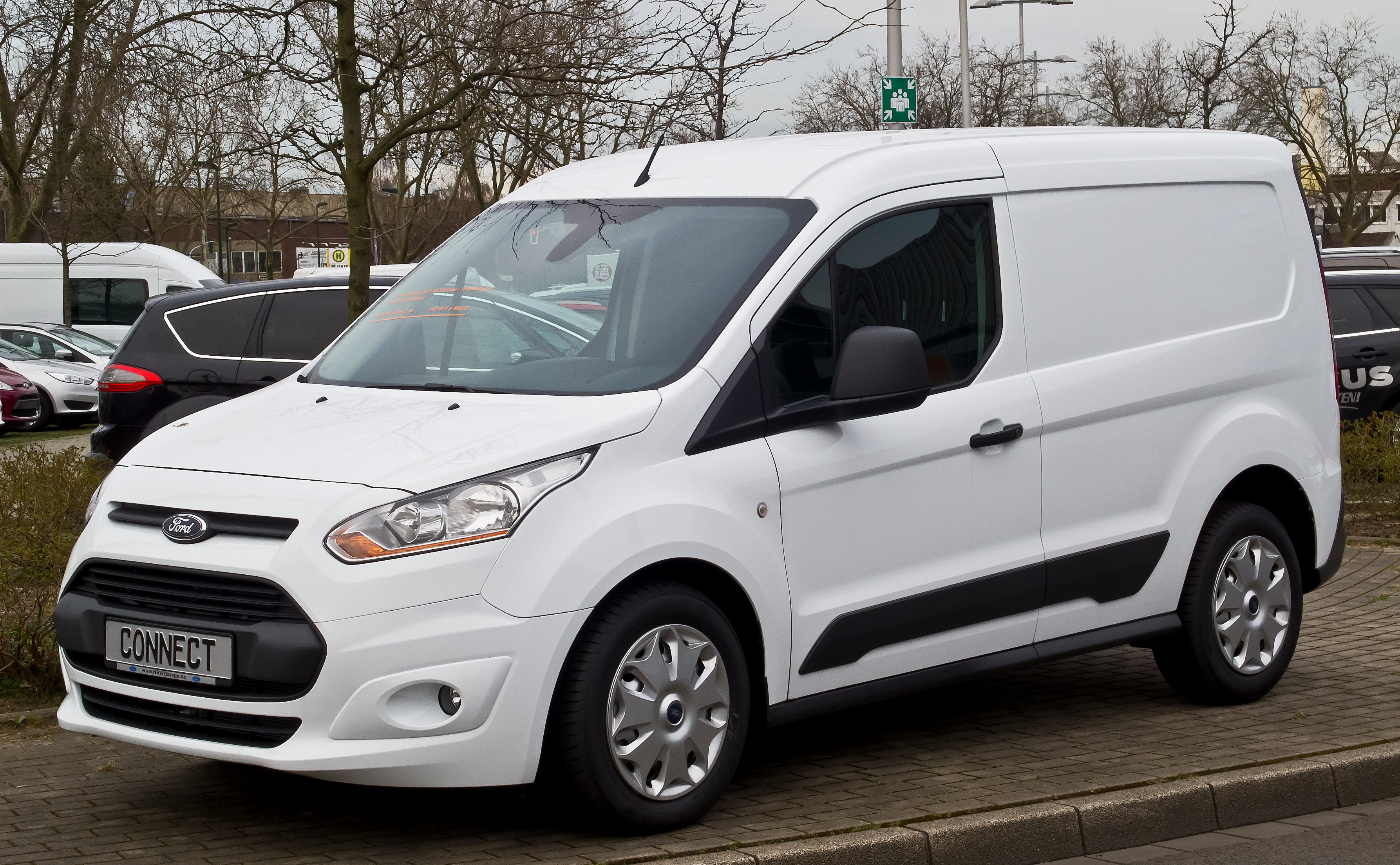 Ford Transit Connect 1.6 TDCi (II)